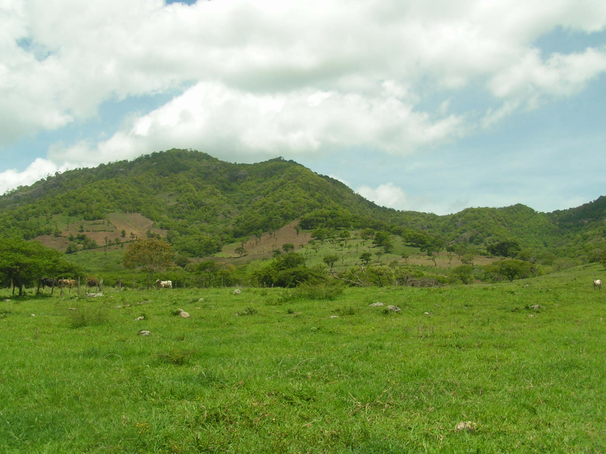 Jinotega pasture